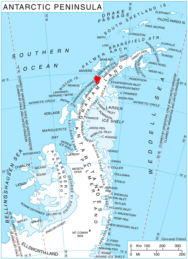 Location of Kiev Peninsula, Antarctica.